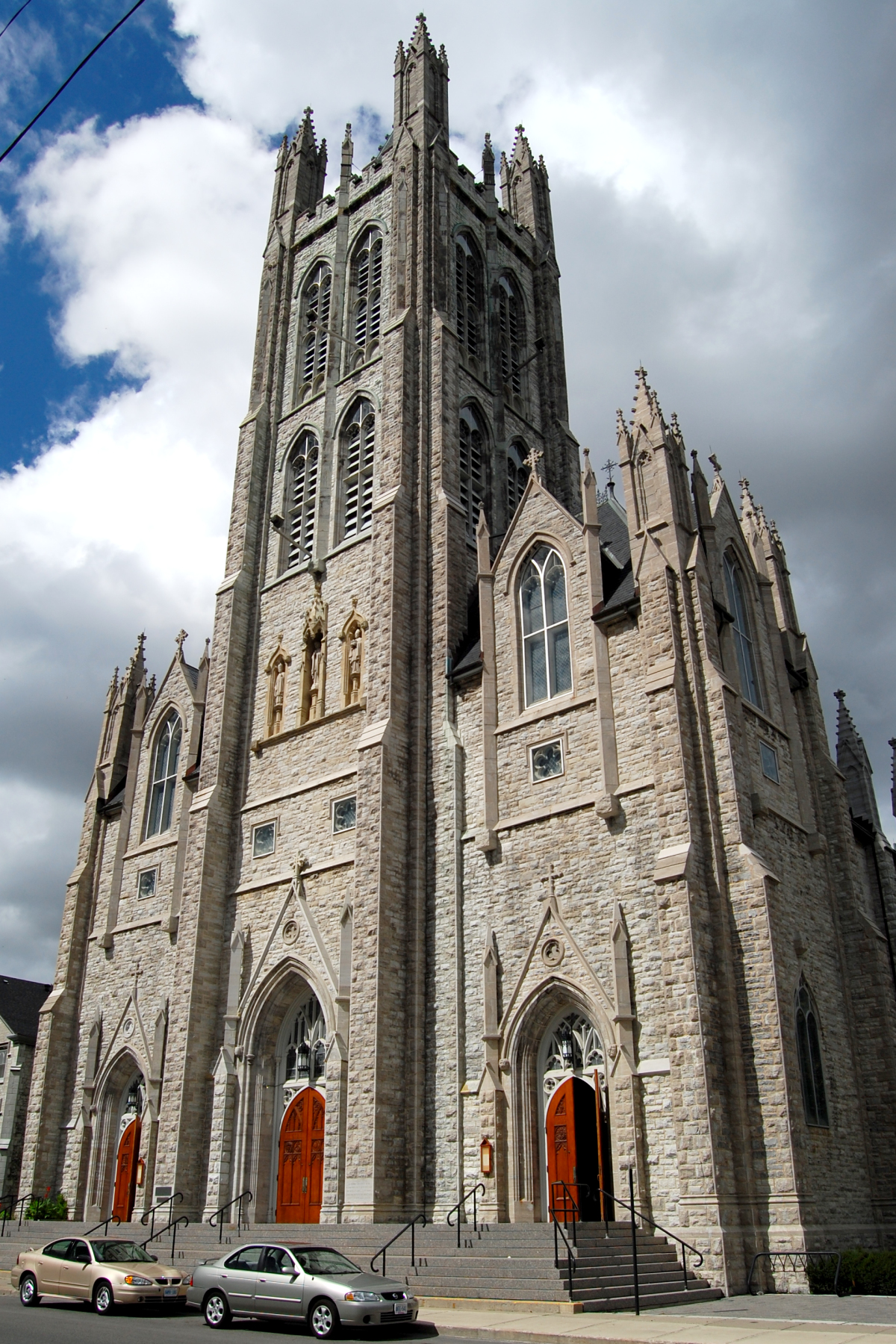 The exterior of St. Mary's Cathedral in Kingston, Ontario, Canada.